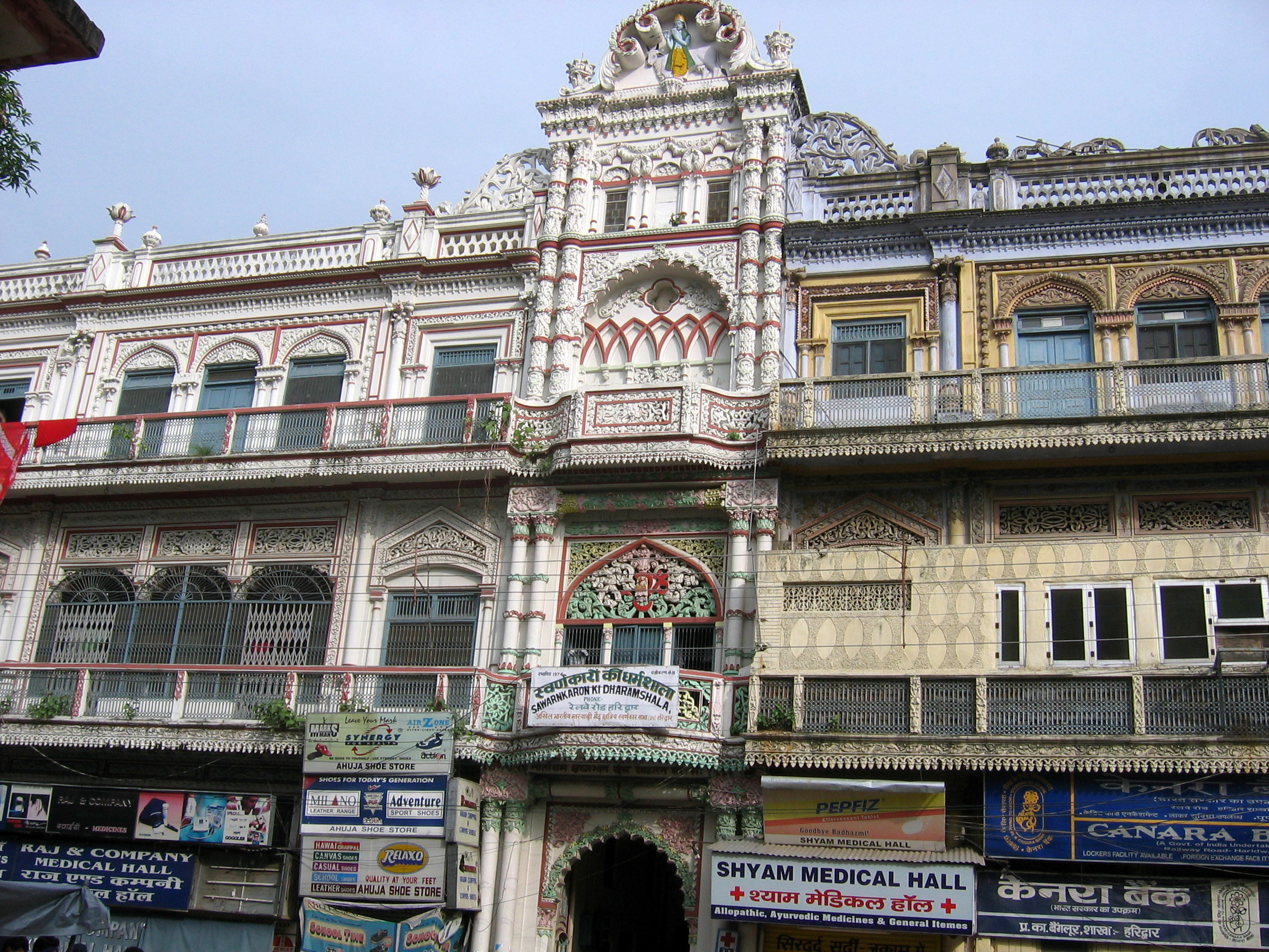 Sawarankaron ki Dharamshala (Goldsmith Rest House), Railway road, Hariwar. Early 20th century structure, notable for its excellent condition, intricate masonry work, of floral motifs, and metal lattice work on the handing balconies, with a statue of Krishna at its highest point. This is one of the many rest houses build in the early 1900s, on the main road to the famous Har-ki-Pauri Ghats, still surviving and in use, as originally intended, a rest houses for pilgrims.